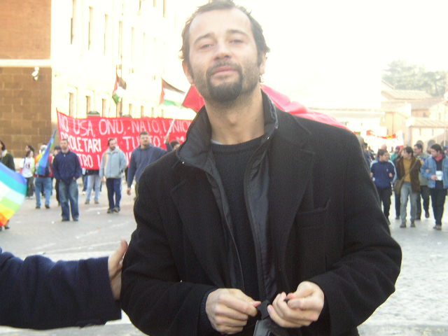 Italian writer and actor Fabio Volo in Roma, 2003